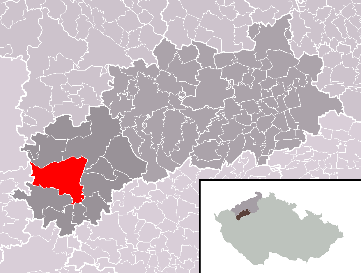 Location of Vroutek town within Louny District and administrative area of Podbořany as a Municipality with Extended Competence.